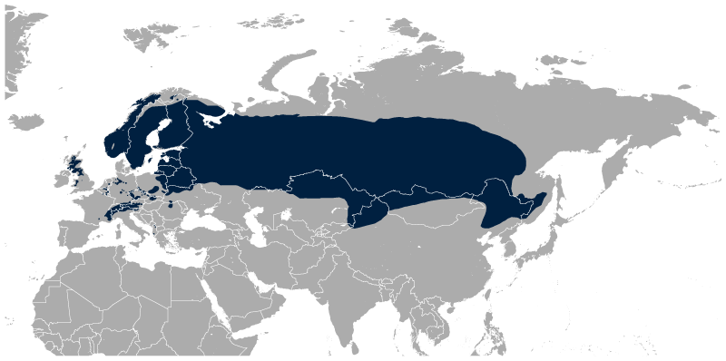 Geographical distribution of the Black Grouse Lyrurus tetrix. The map was created using the Generic Mapping Tools, GMT, version 5.1.2.